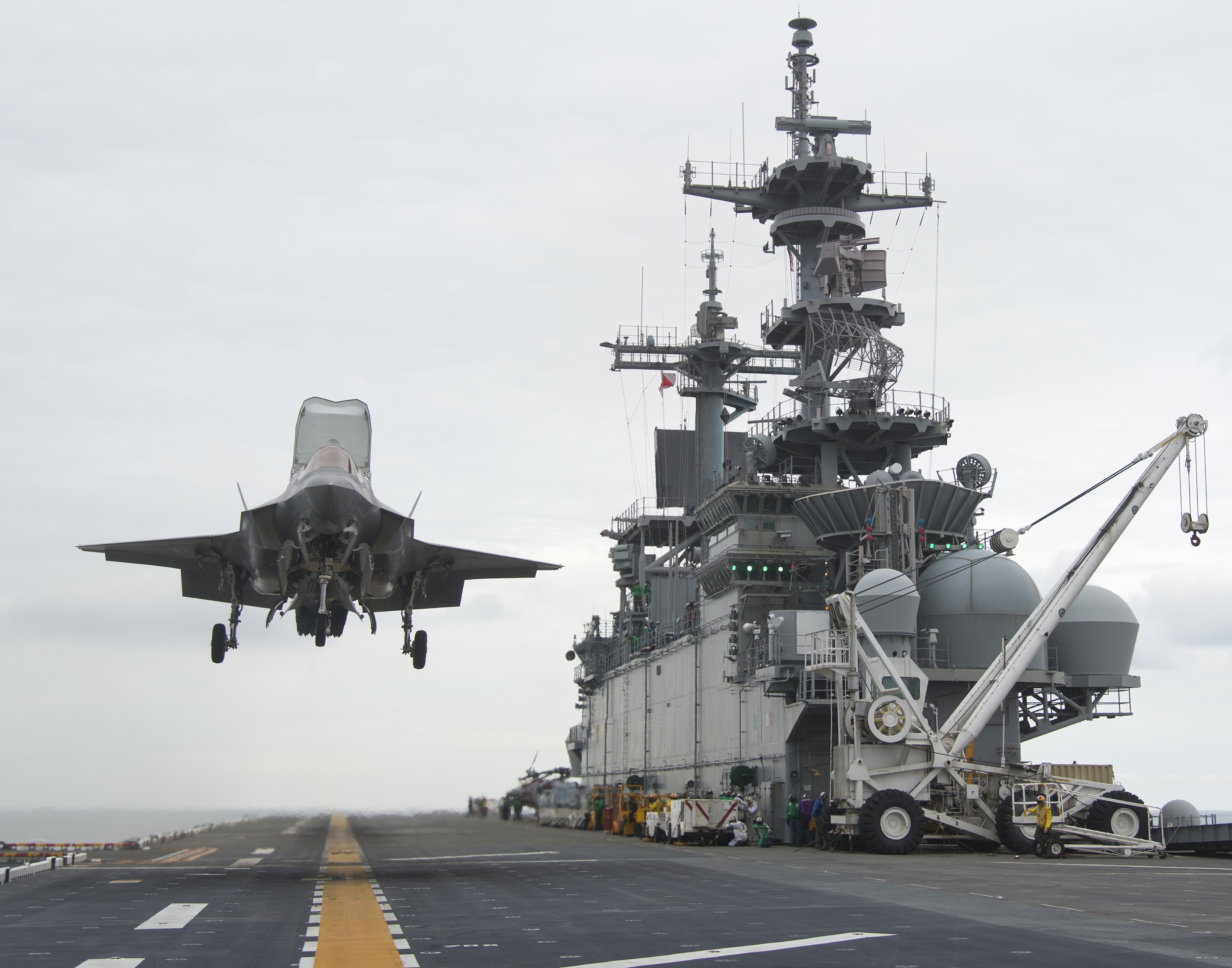 13P00405_22 – Aircraft BF-01 from the F-35 Lightning II Pax River Integrated Test Force assigned to Air Test and Evaluation Squadron 23 completed a Vertical Landing aboard USS Wasp on Aug. 19, 2013. The joint U.S.-U.K. test team conducted the VL during the second developmental test phase for the F-35B short takeoff and vertical landing aircraft. Since 2010, the PAX ITF has flown more than 1,800 test flights, logged 2,544 test hours and completed 12,800 F-35B test points, directly resulting in the USMC Initial Operating Capability flight clearance. Unit: F-35 Lighting II Pax River ITF